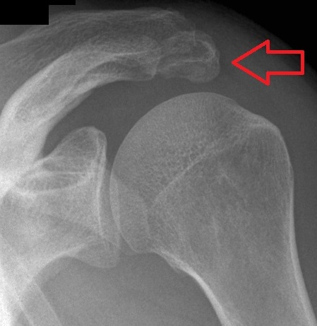 Projectional radiograph of os acromiale.